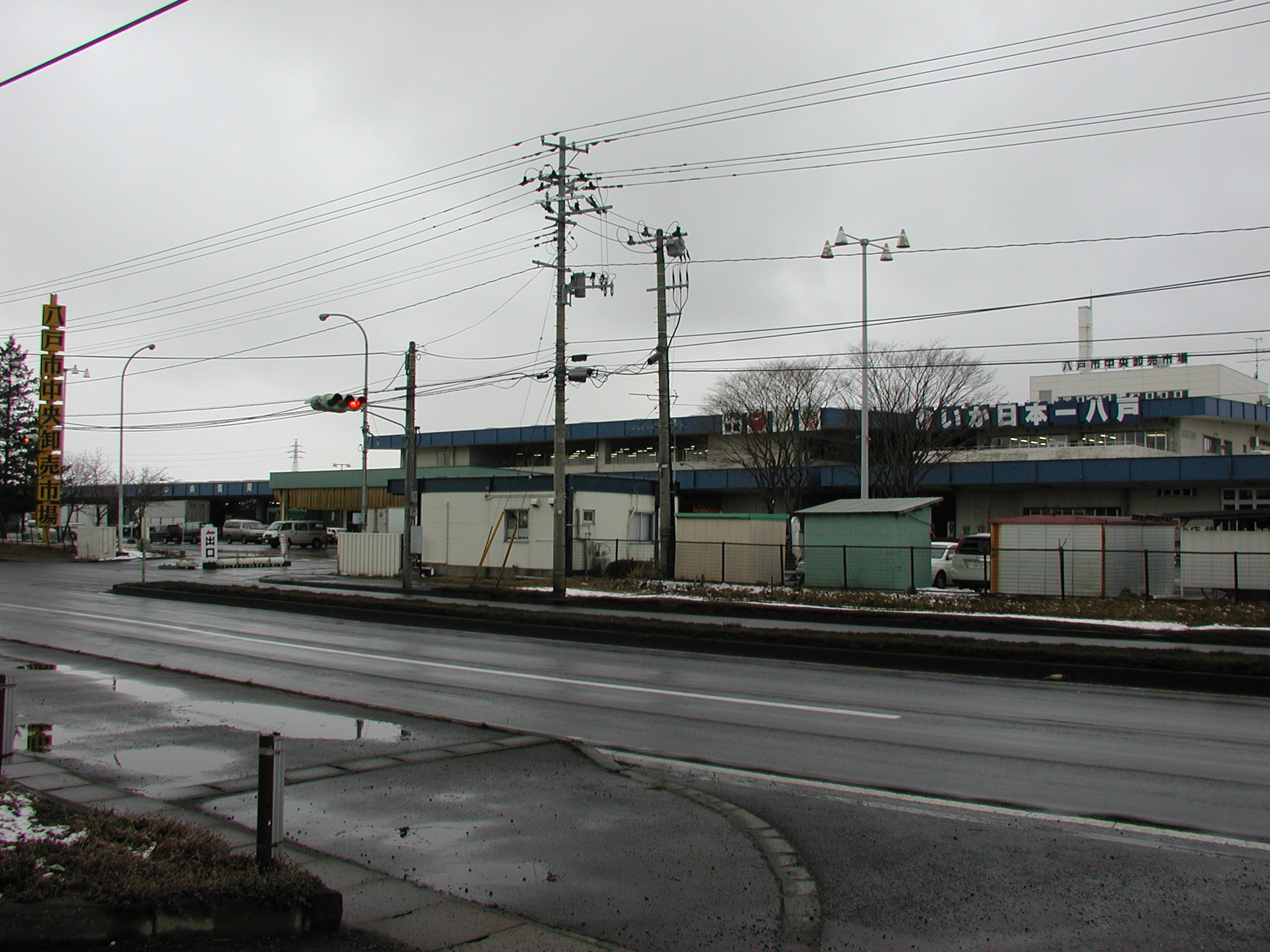 Hachinohe City Central Wholesale Markets